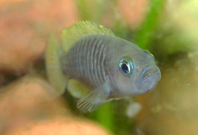 Neolamprologus multifasciatus - small cichlid from african lake Tanganyika